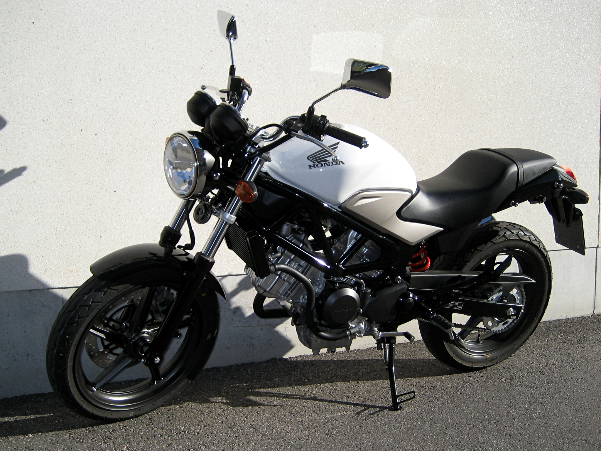 Honda's entry level 250cc V-Twin motorcycle, VTR250 (year 2009). It is fitted with fuel injection (PGM-FI).